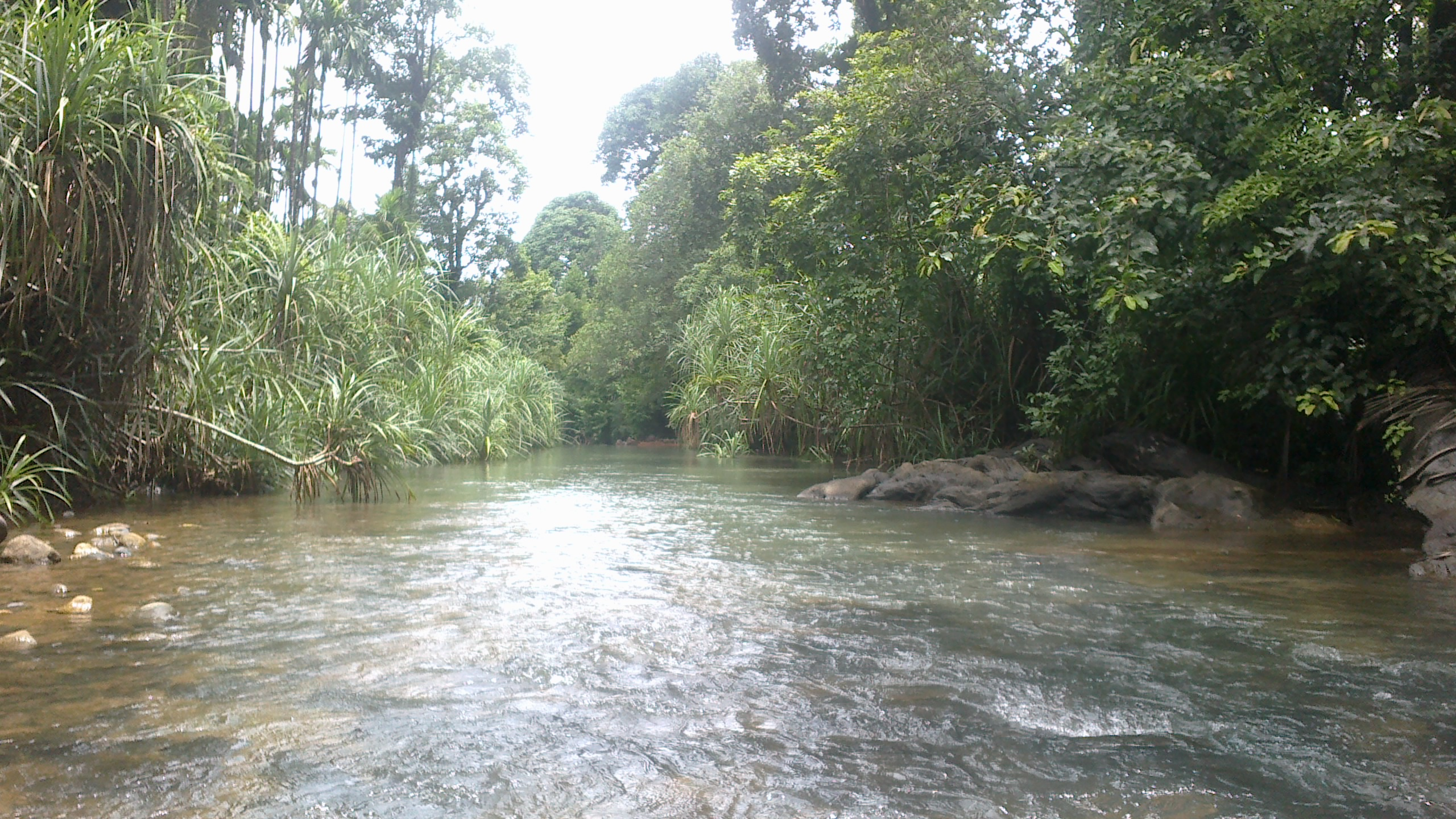 thombattu